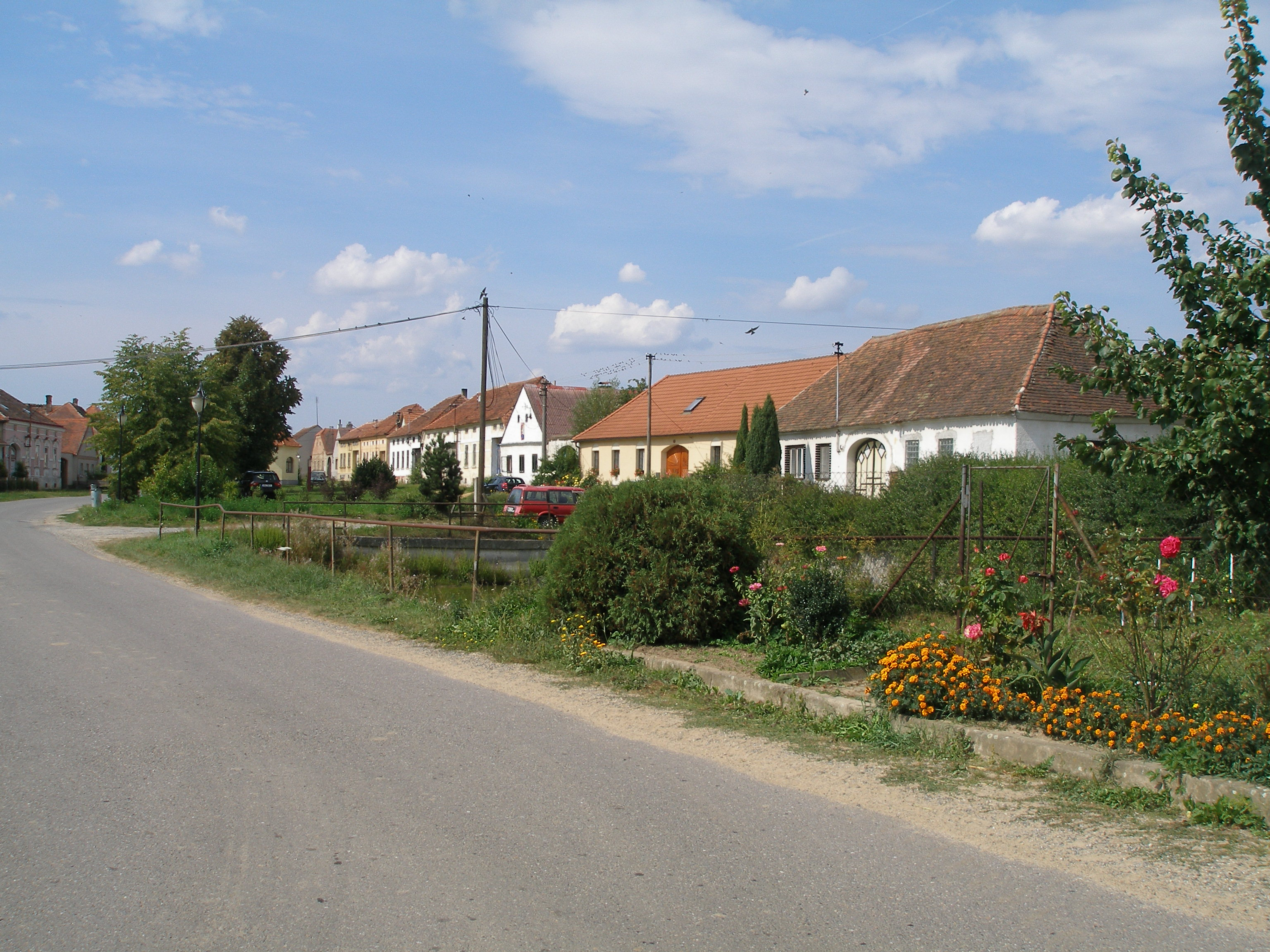 The Eastern View of the villaqe square in Dančovice